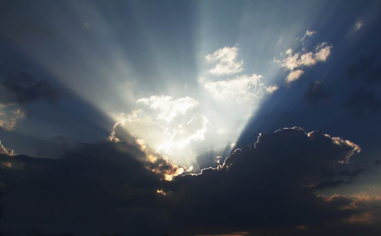 "Behind the cloud" style crepuscular rays.